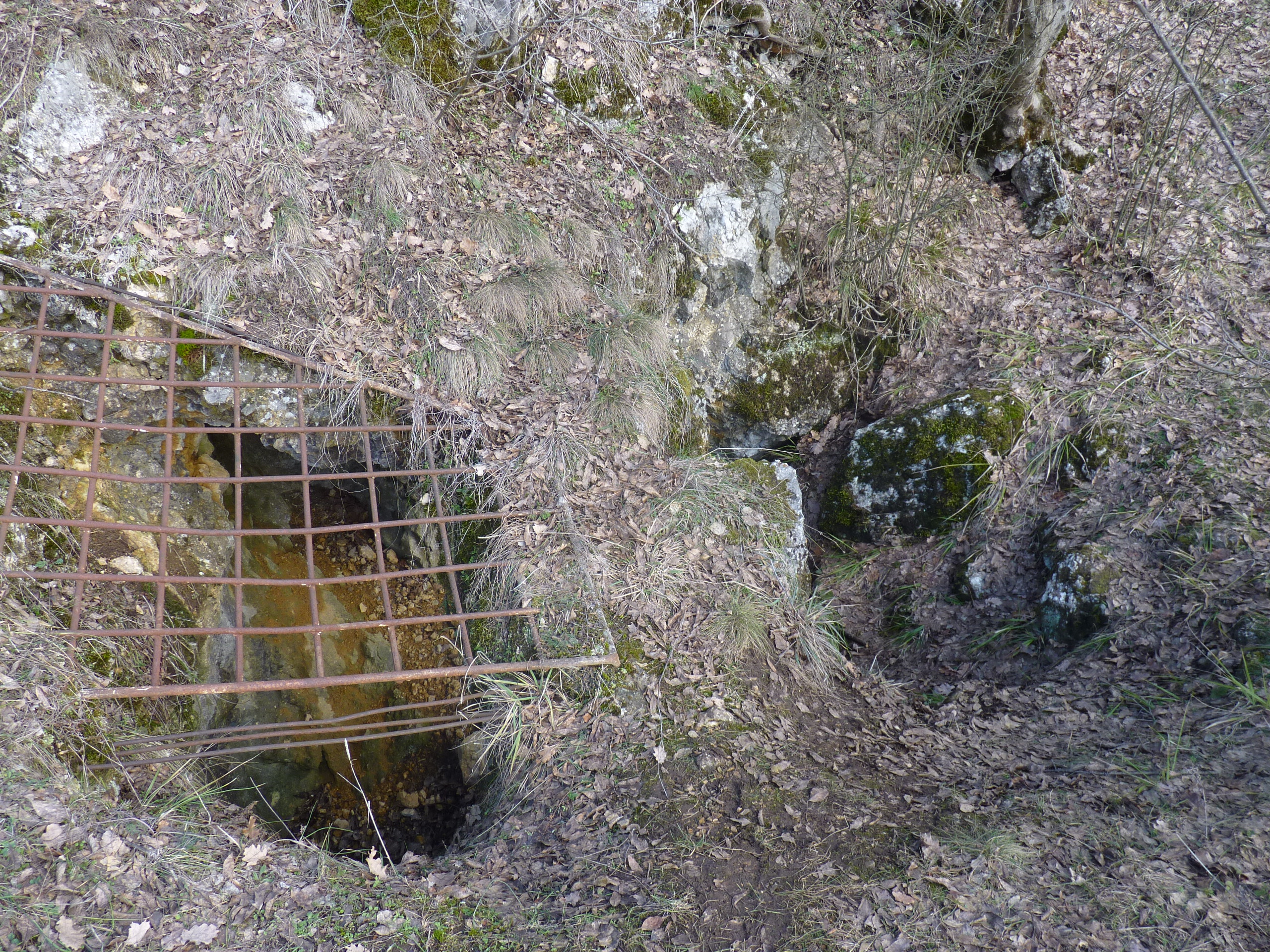 Hosszú Hill Cave